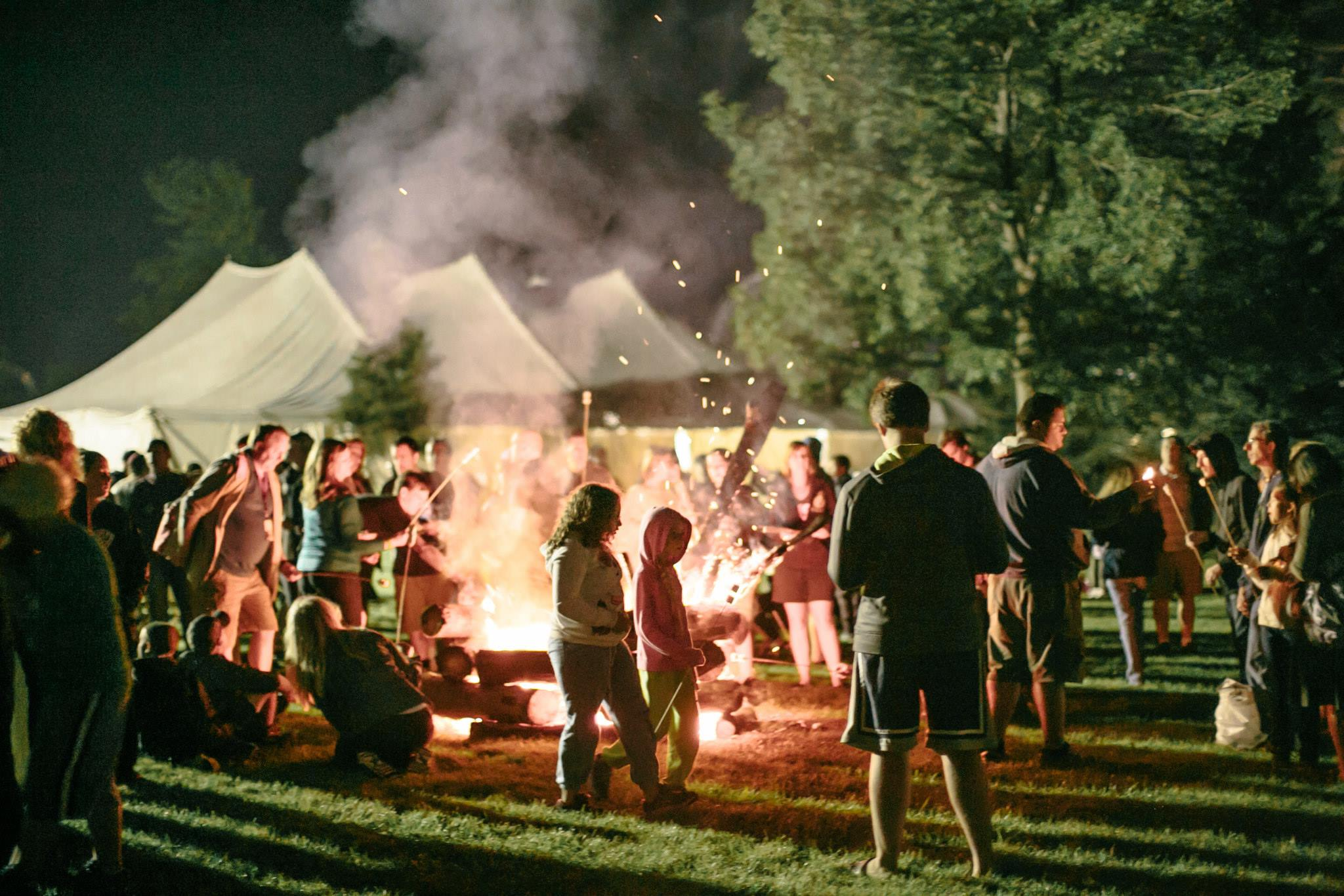 A photo of the annual late night bonfire at Kingdom Bound